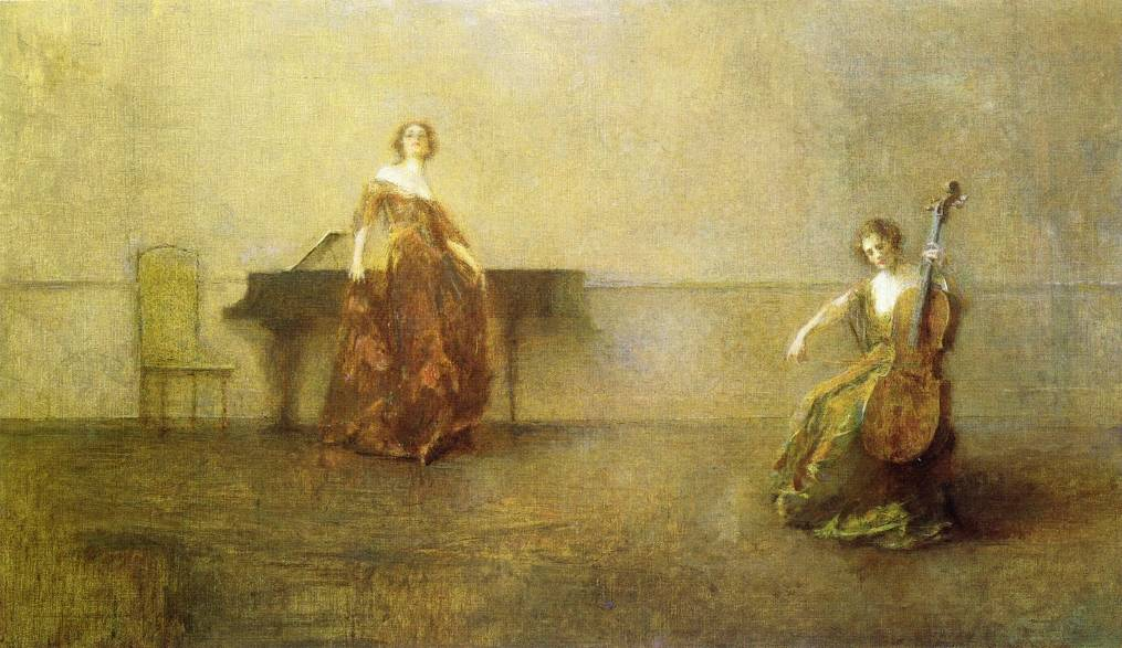 The song and the cello, 1910 Thomas Dewing, Private Collection